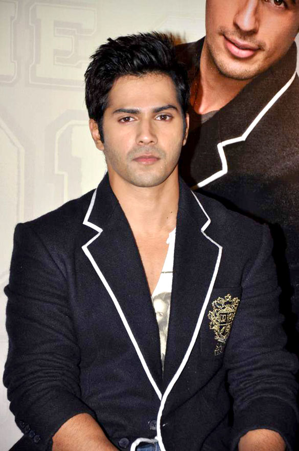 Varun Dhawan at the promo launch of 'Student Of The Year'